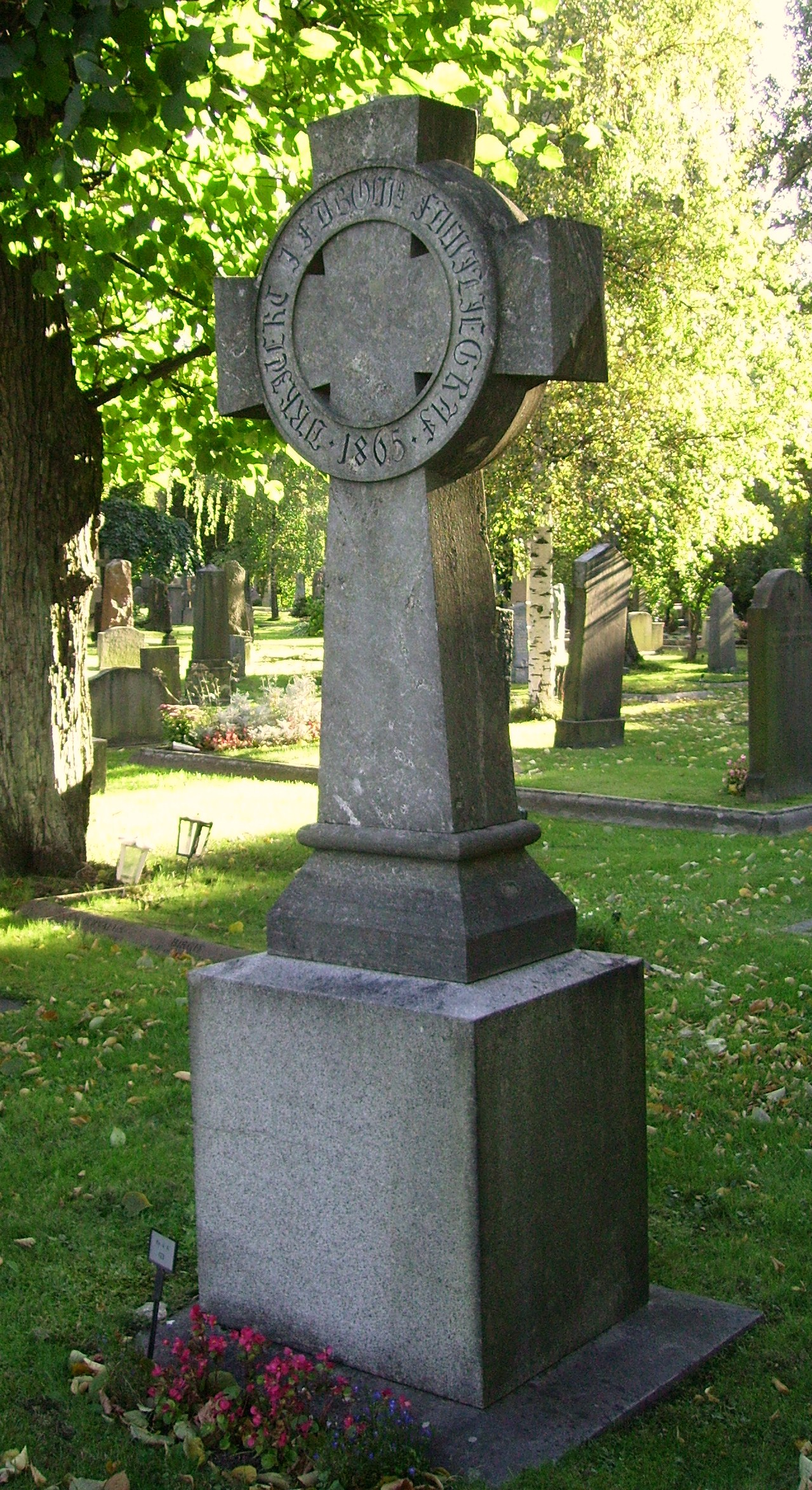 Picture of Johan Fredrik Åboms grave at Norra begravningsplatsen in Solna